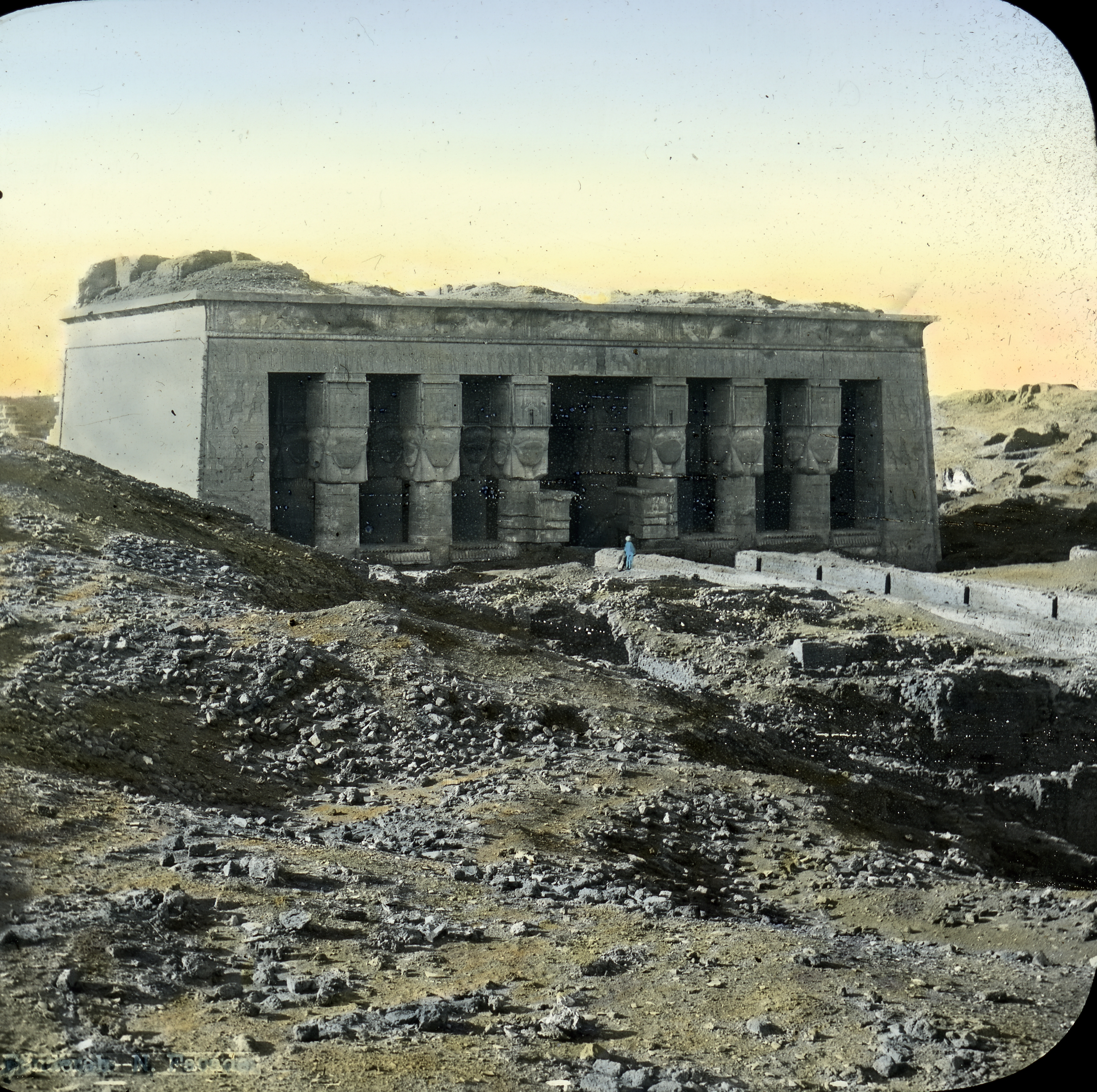 Egypt. Denderah [selected images]. View 04: Egypt - Denderah., n.d., This slide colored by Joseph Hawkes. Brooklyn Museum Archives (S10.08 Denderah, image 9881).